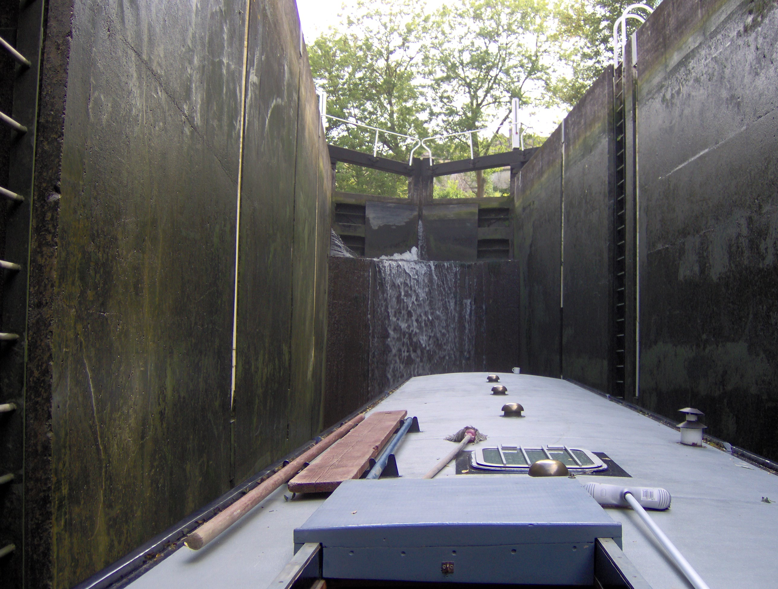 Bath Deep Lock. Taken by Rod Ward August 2006.